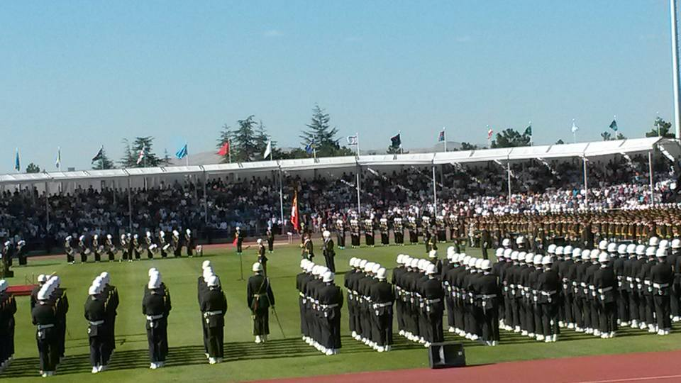 View from 167th semester graduation ceremony activities at the Turkish Military Academy, Ankara. With the participation of President Recep Tayyip Erdoğan (His Excellency). 2016 events in Military Academy Command.